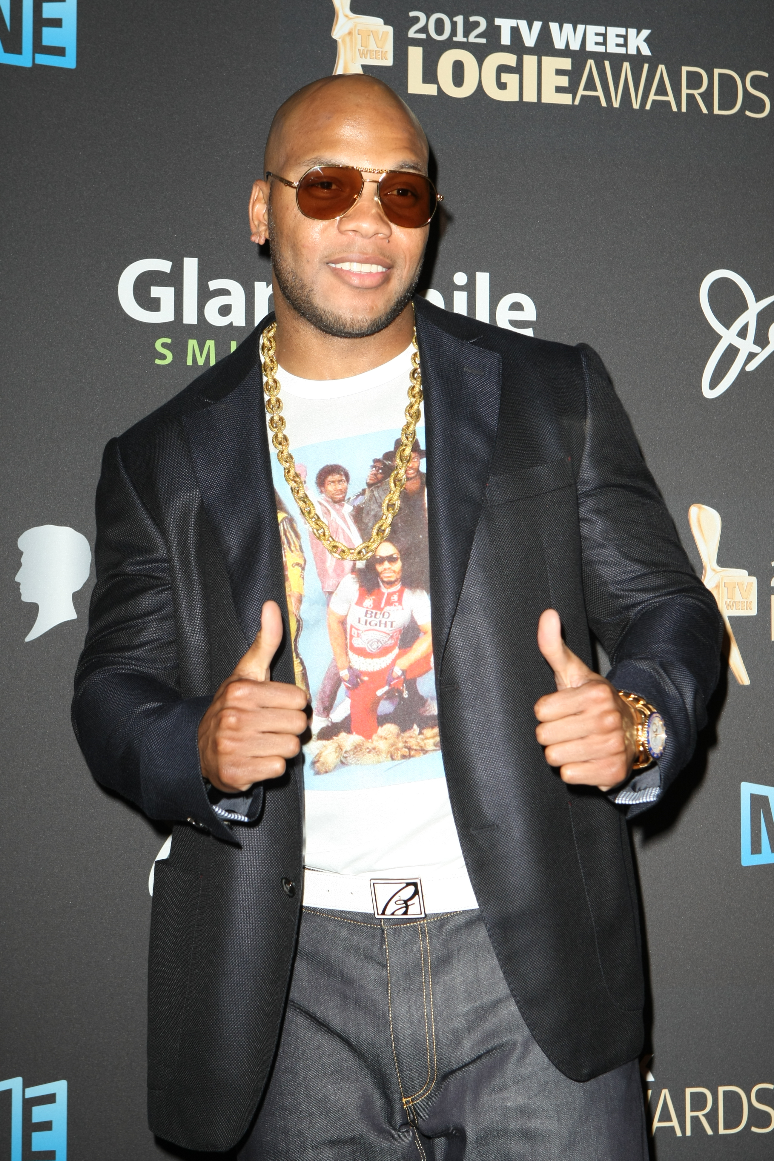 Flo Rida at the 2012 Logie Awards